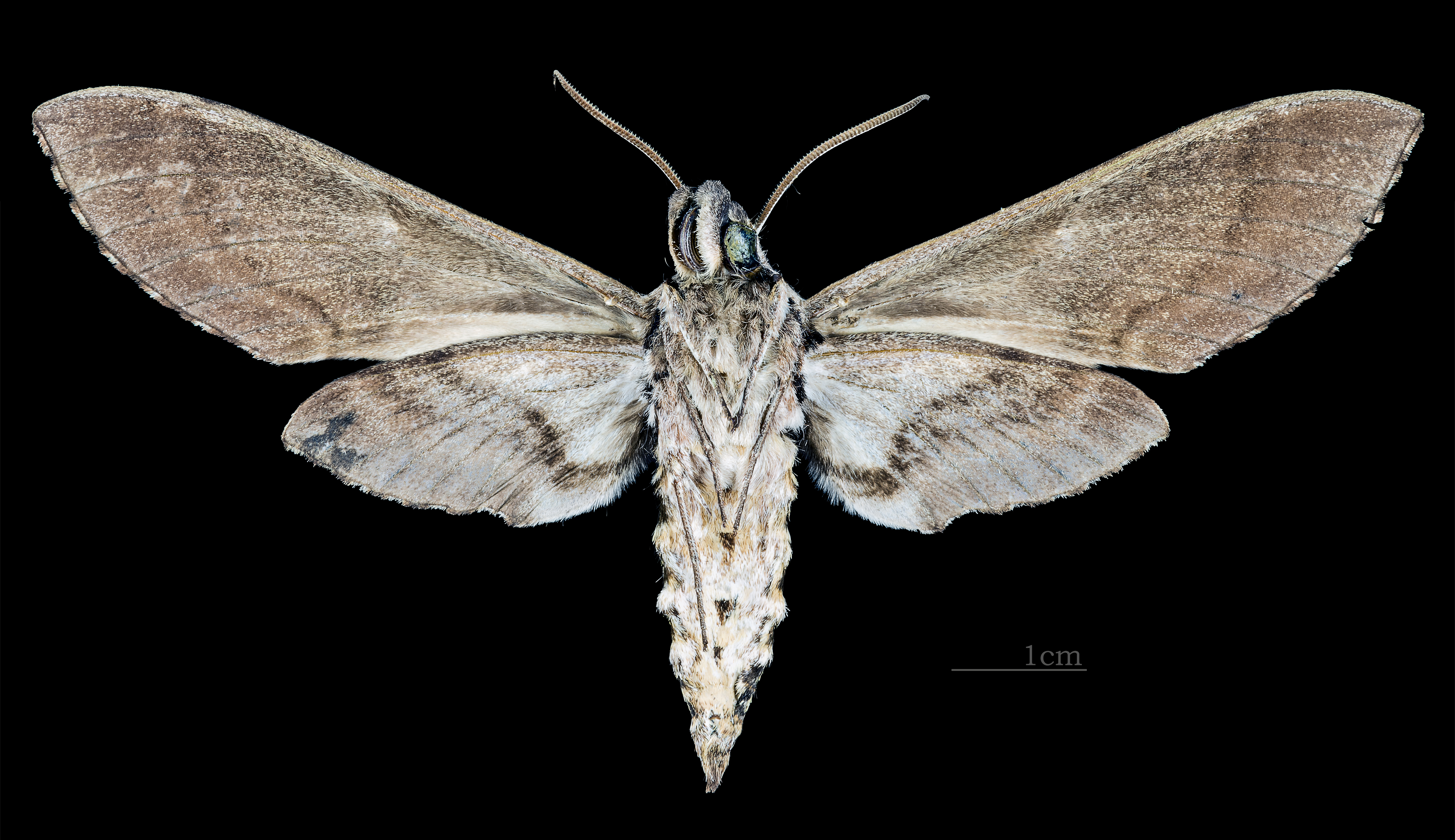 Manduca tucumana - △ Ventral side Collection of the Mathematician Laurent Schwartz